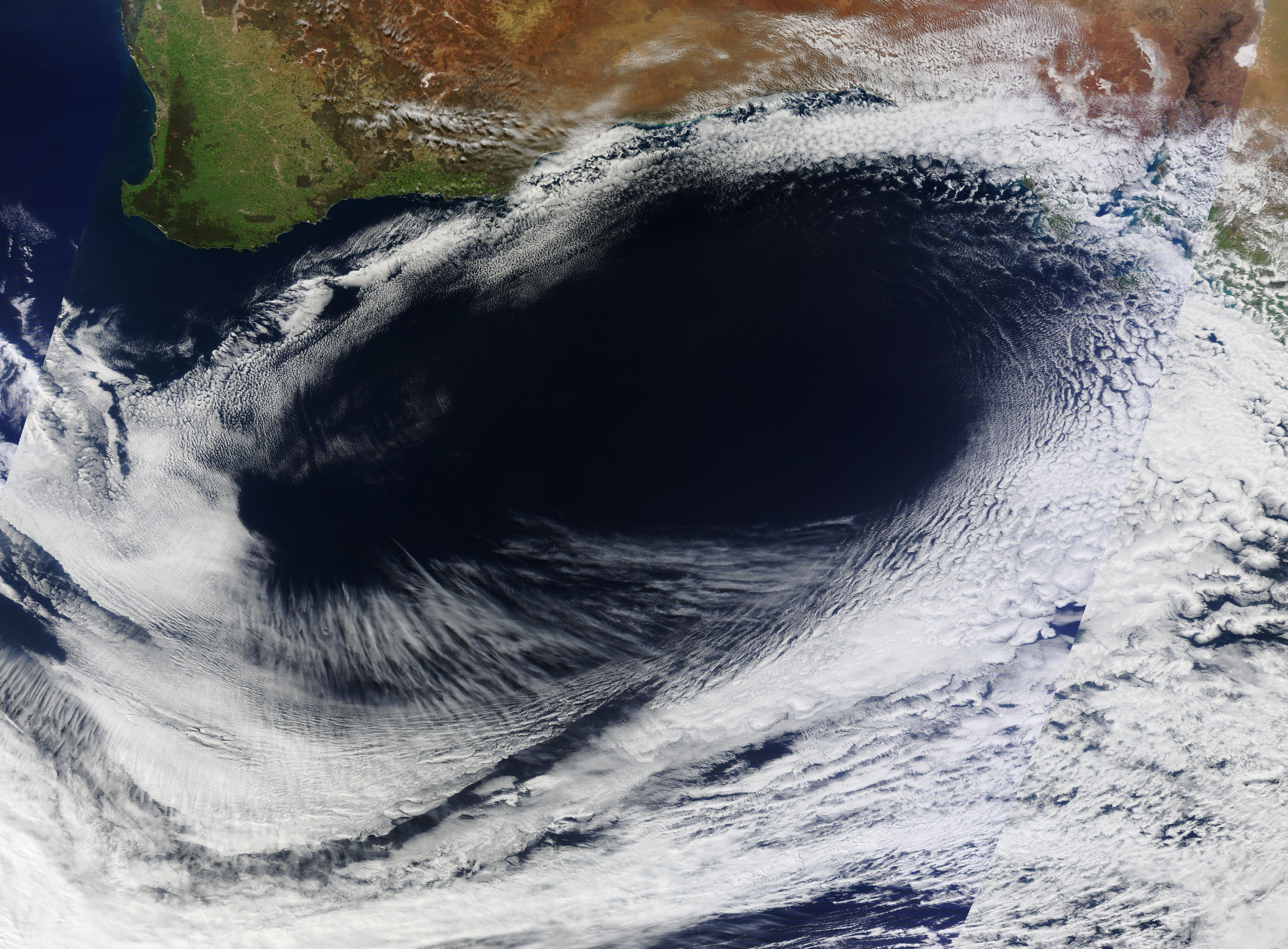 An Unusual Anticyclone in Southern Australia. Satellite loop at the the time the image above was taken, showed the Anticyclone was spinning counterclockwise, as it is in the Southern Hemisphere. Earth100 checked the isobaric chart of southern Australia, as seen here in proof, which showed that there was really, a High Pressure area right where the area of clear clouds was located, with a High of 1031hpa.